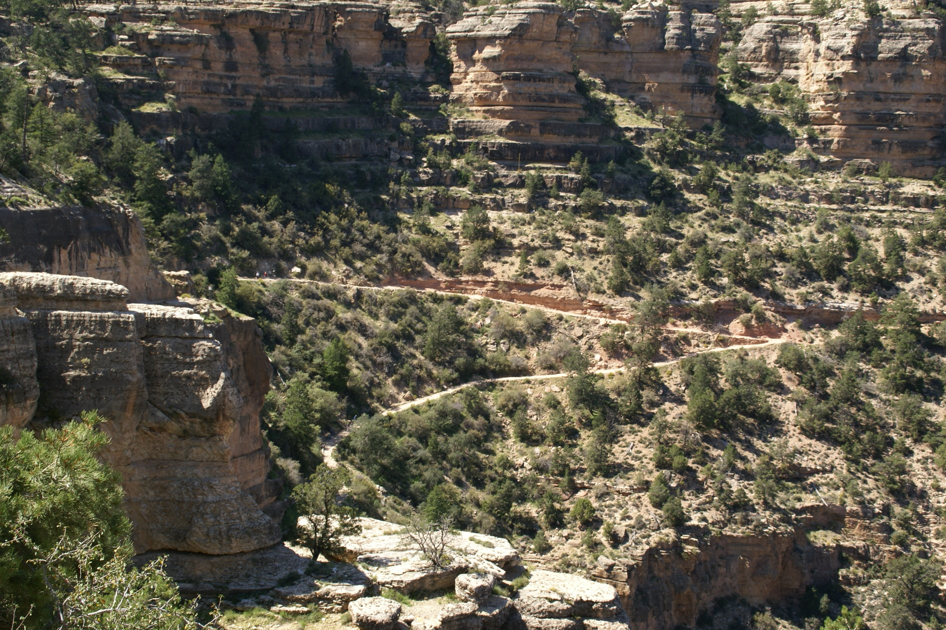 Bright Angel Trail, Grand Canyon, Arizona, USA